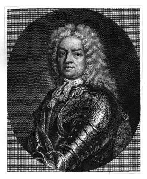 Simon Fraser, 11th Lord Lovat